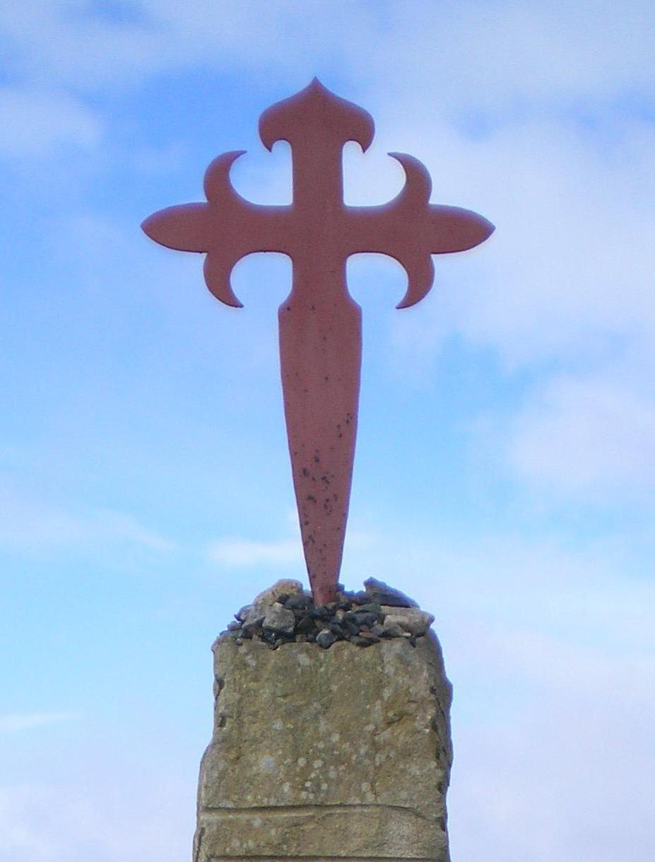 Cross of Saint James in the Way of St. James.